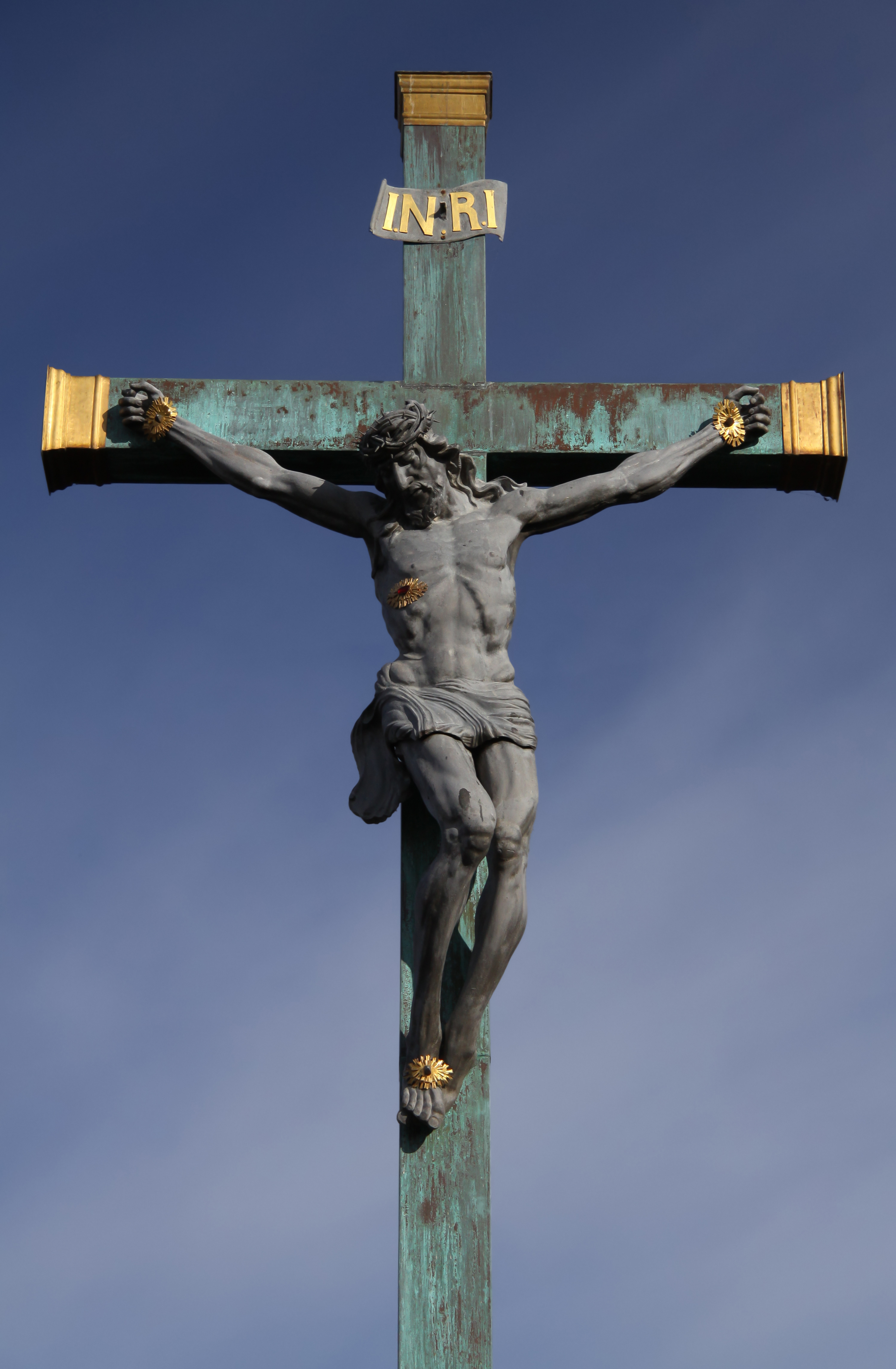 Jesus on the cross on the Stone Bridge in Písek, Czech Republic